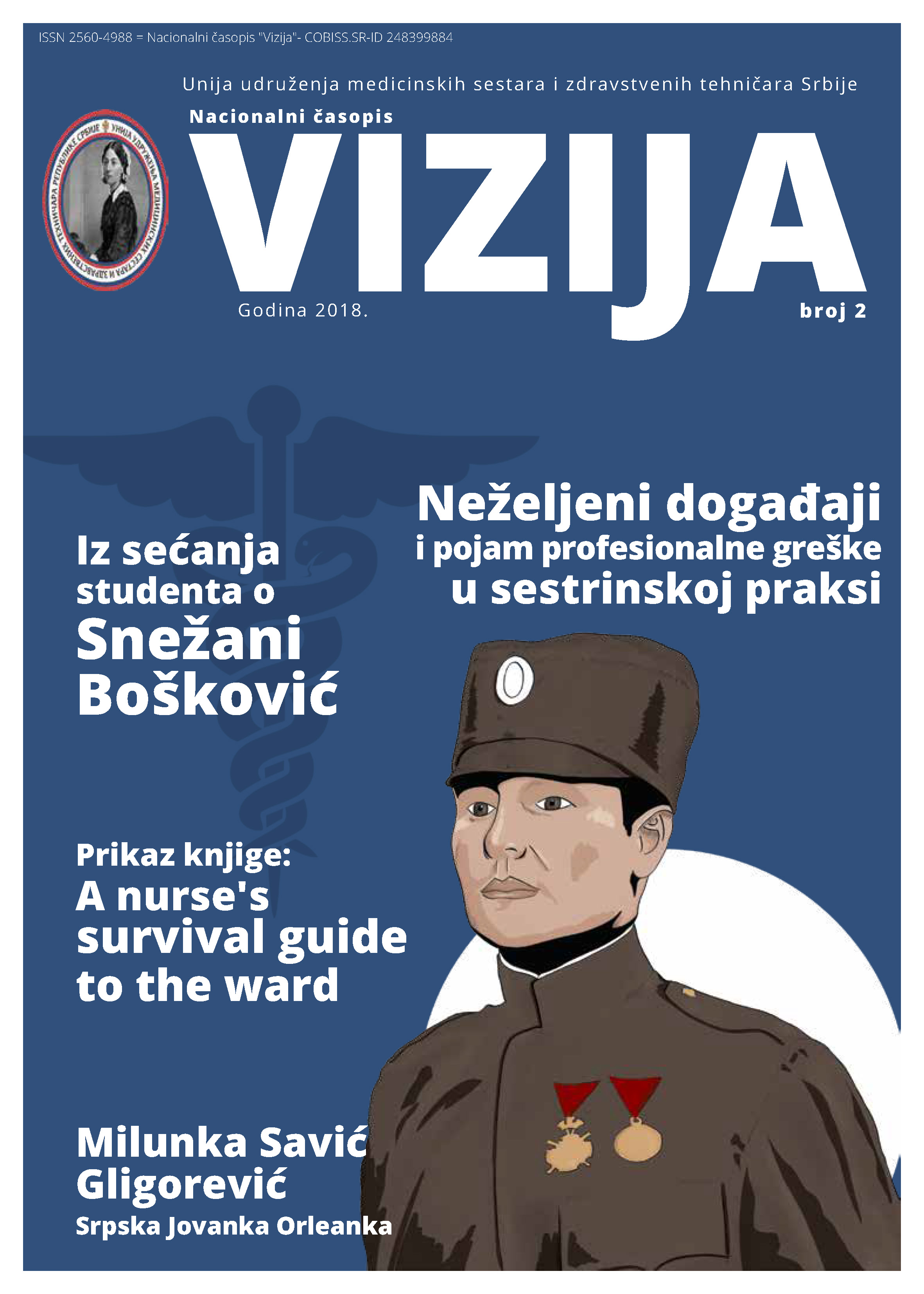 Cover of Serbian scientific journals published by Union Association of Nurses and Health Technicians of Serbia